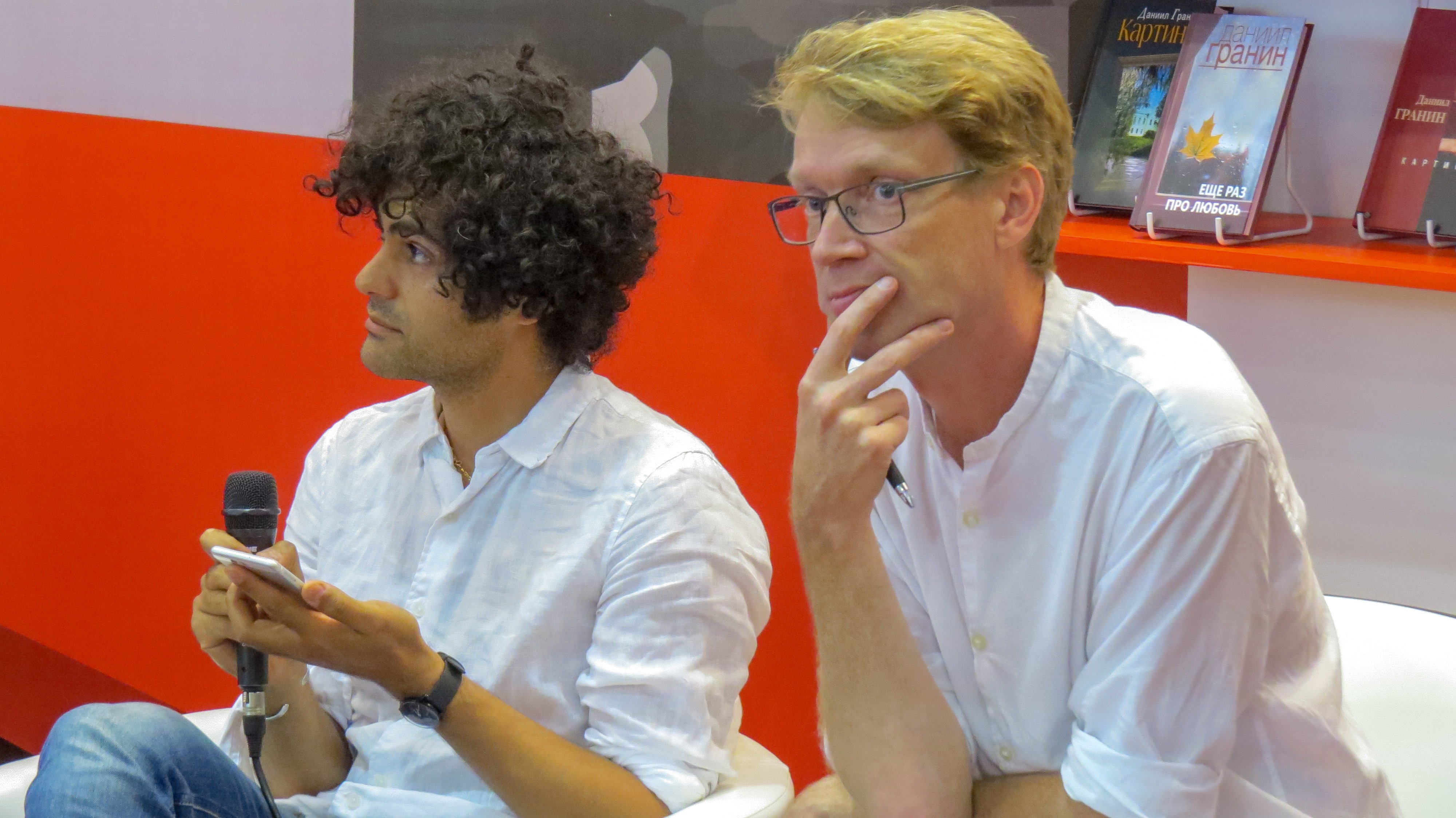 Khashayar Naderehvandi and Mikael Nydahl at the MIBF 2018.